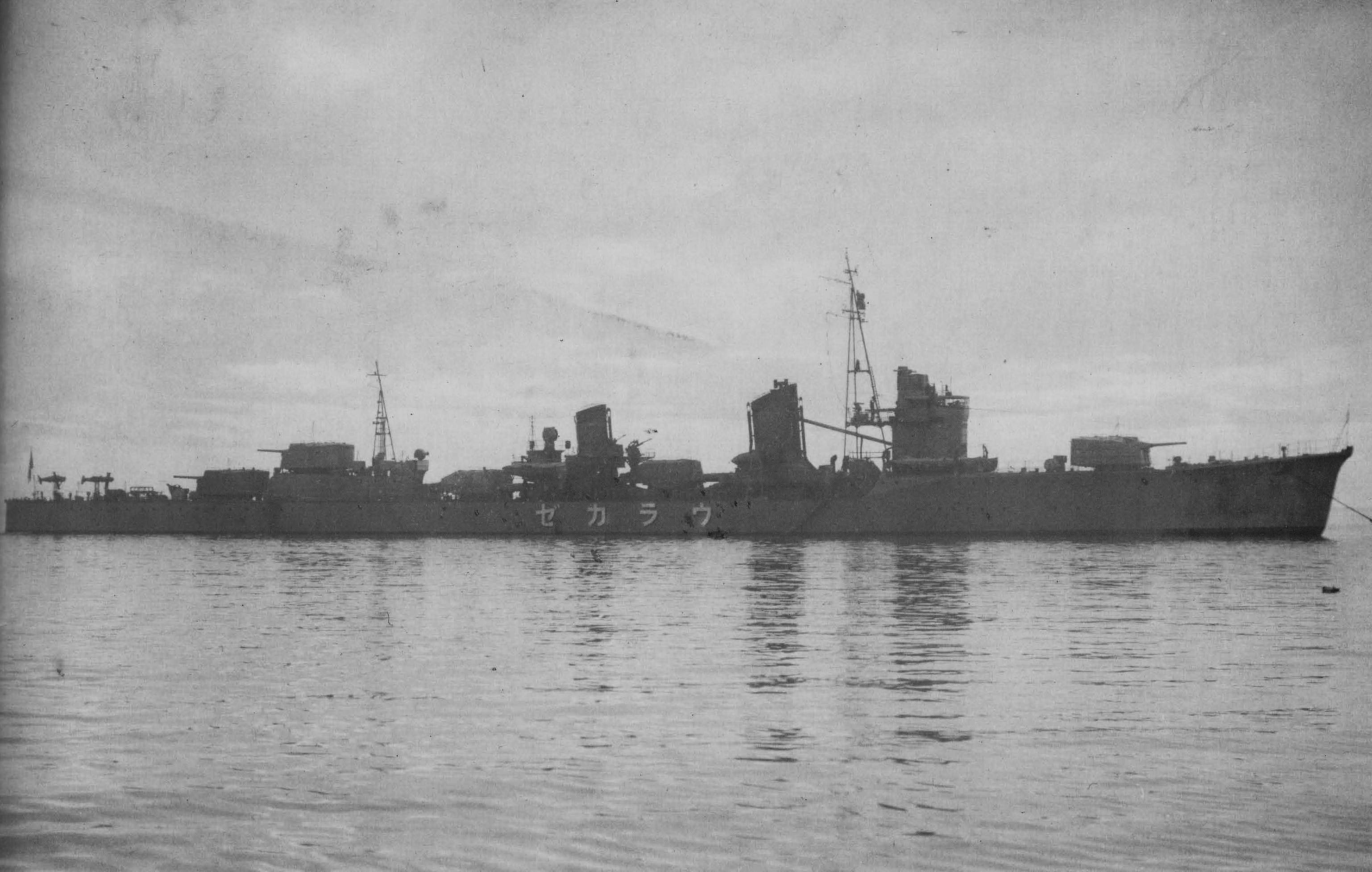 Imperial Japanese Navy destroyer Urakaze, the second Japanese warship to bear that name.